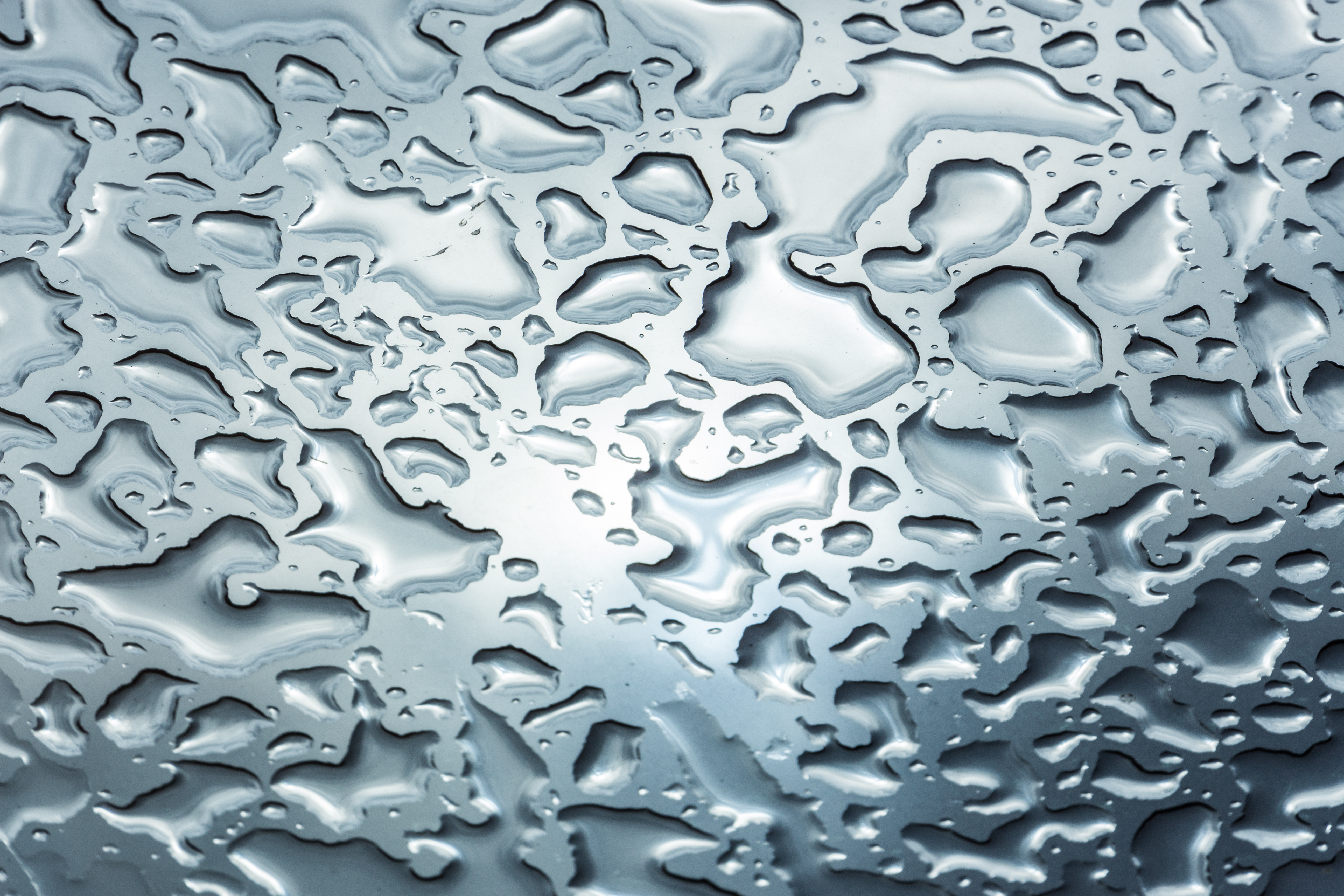 Rain on glass